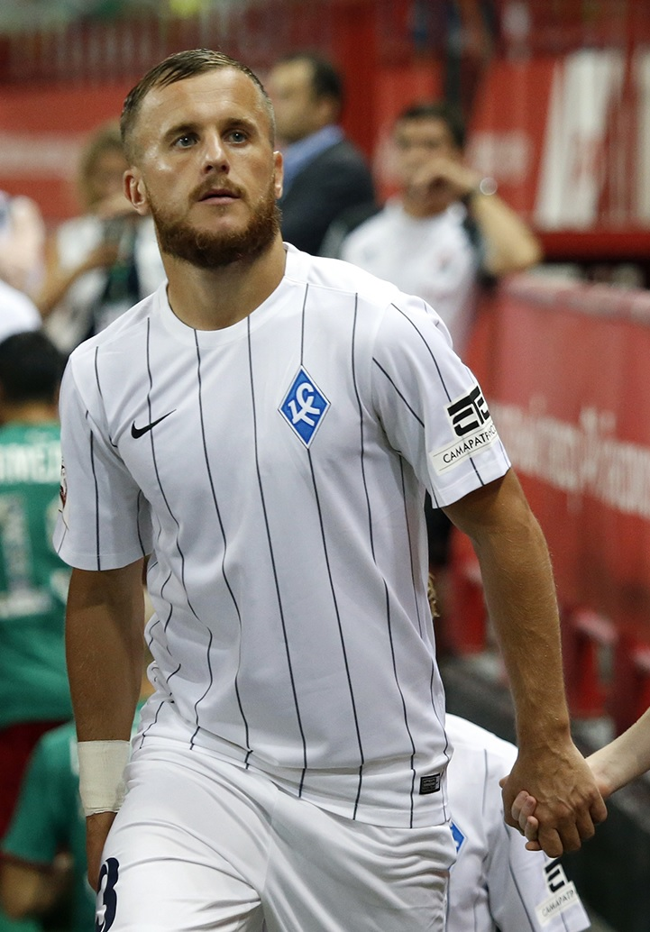 Dmitri Yatchenko with FC Krylia Sovetov Samara before the game against FC Lokomotiv Moscow.